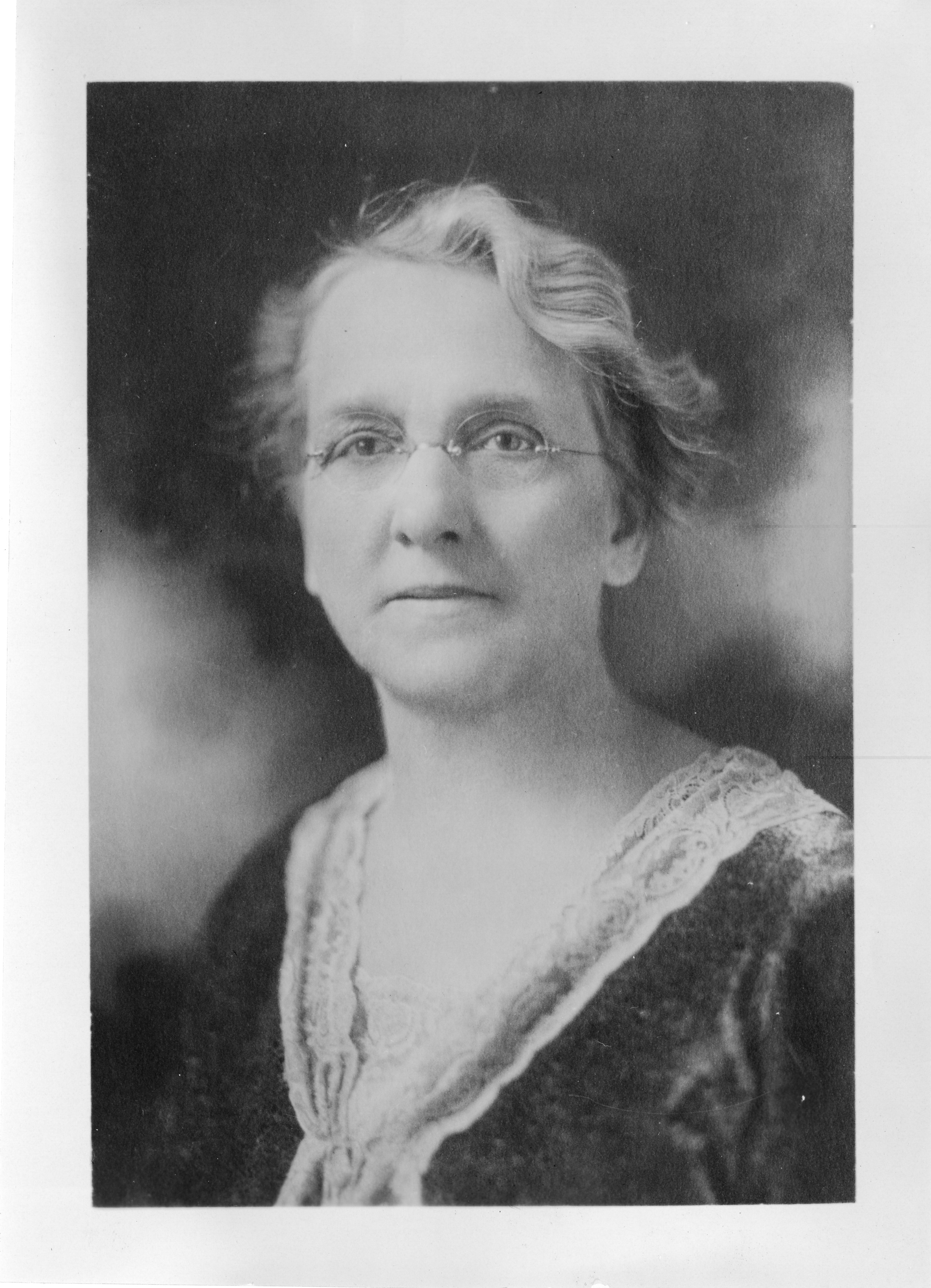 Description: Plant physiologist Margaret Clay Ferguson (1863-1951) earned her Ph.D. at Cornell University (1901) and taught at Wellesley College from 1893 to 1932. In 1929, she was elected president of the Botanical Society of America, the first woman to hold that office. Creator/Photographer: Unidentified photographer Medium: Black and white photographic print Persistent URL: Repository: Smithsonian Institution Archives Collection: Accession 90-105: Science Service Records, 1920s – 1970s - Science Service, now the Society for Science & the Public, was a news organization founded in 1921 to promote the dissemination of scientific and technical information. Although initially intended as a news service, Science Service produced an extensive array of news features, radio programs, motion pictures, phonograph records, and demonstration kits and it also engaged in various educational, translation, and research activities. Accession number: SIA2008-0573